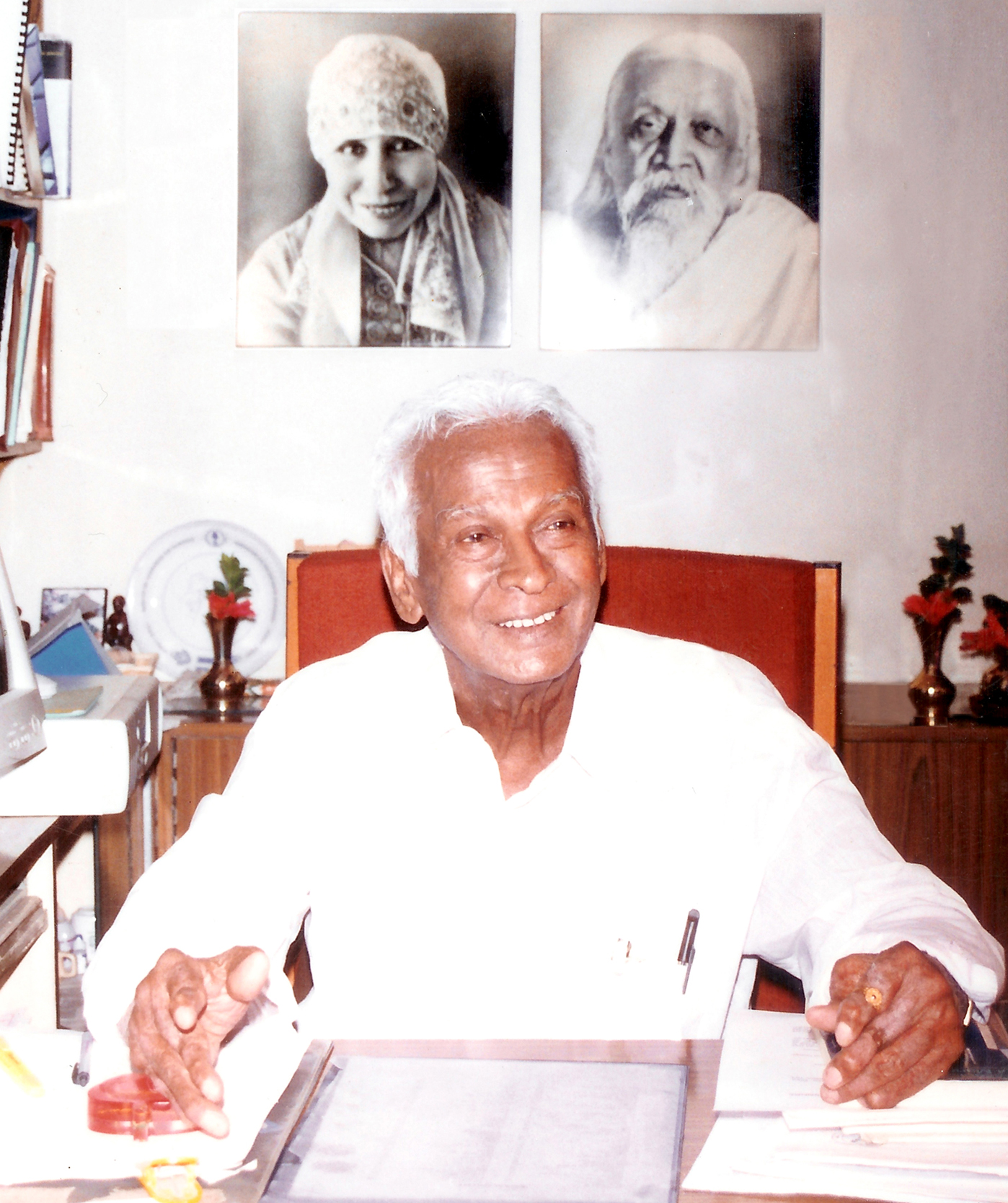 Dr. V in his desk